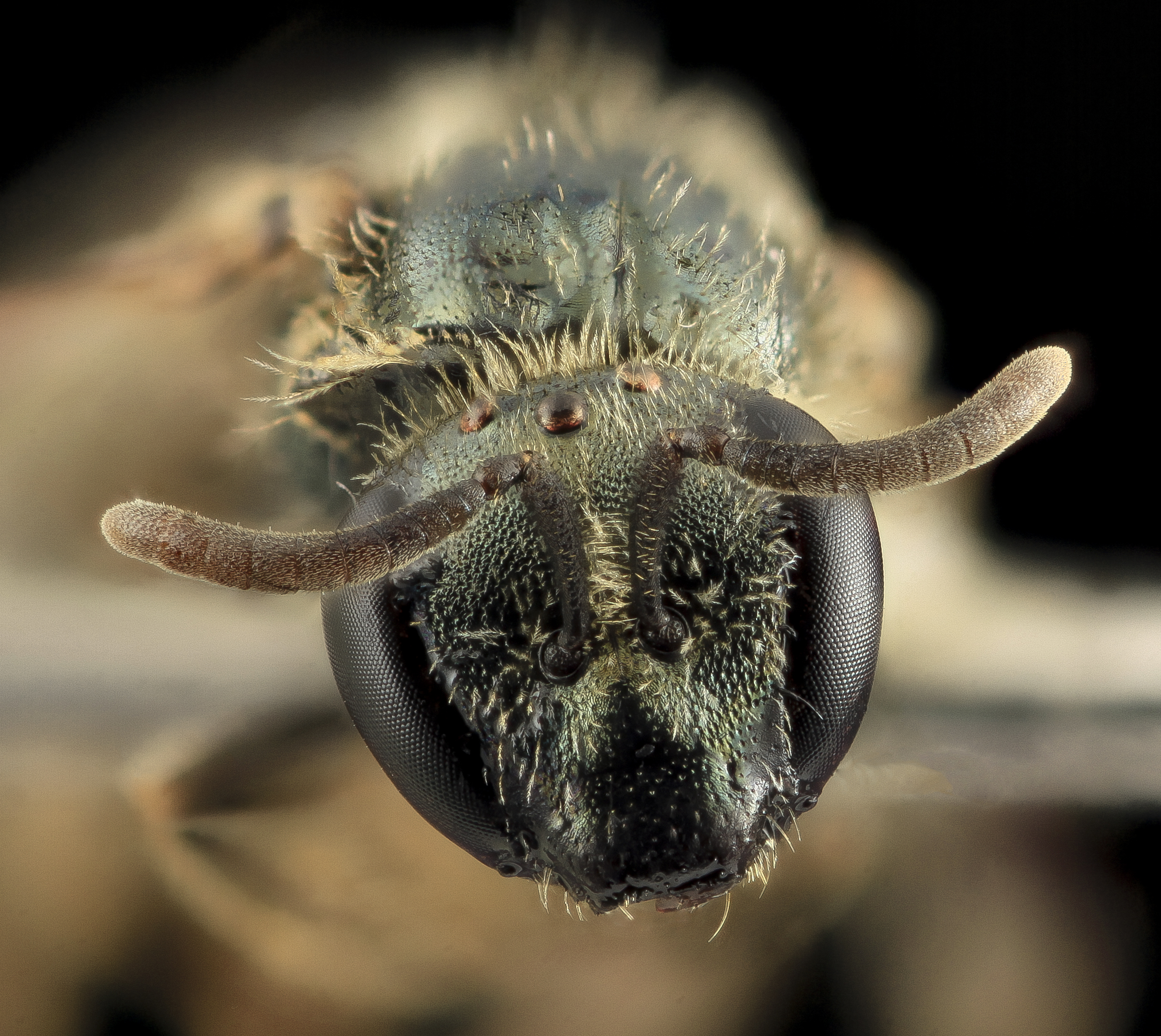 Queens New York has rare bees. In this case this Lasioglossum georgeickworti was found at the very tip of breezy point, which for some reason has escaped development and remains a very high quality natural area, filled with dunes and rare bees. Photograph by Brooke Alexander. 18:40, 9 August 2015 (UTC)18:40, 9 August 2015 (UTC) 0 18:40, 9 August 2015 (UTC)18:40, 9 August 2015 (UTC) All photographs are public domain, feel free to download and use as you wish. Photography Information: Canon Mark II 5D, Zerene Stacker, Stackshot Sled, 65mm Canon MP-E 1-5X macro lens, Twin Macro Flash in Styrofoam Cooler, F5.0, ISO 100, Shutter Speed 200 Beauty is truth, truth beauty - that is all Ye know on earth and all ye need to know " Ode on a Grecian Urn" John Keats Contact information: Sam Droege 301 497 5840